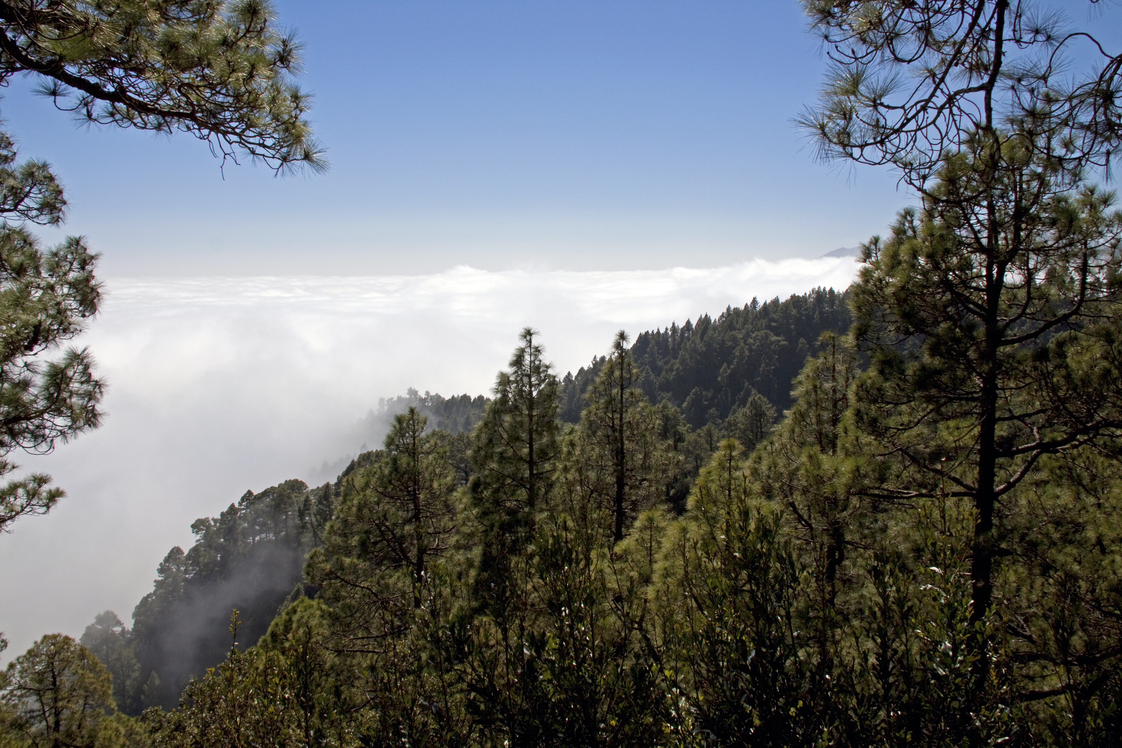 Driving from Santa Cruz, through the forests to the top of the Caldera de Taburiente, we passed through a layer of cloud.